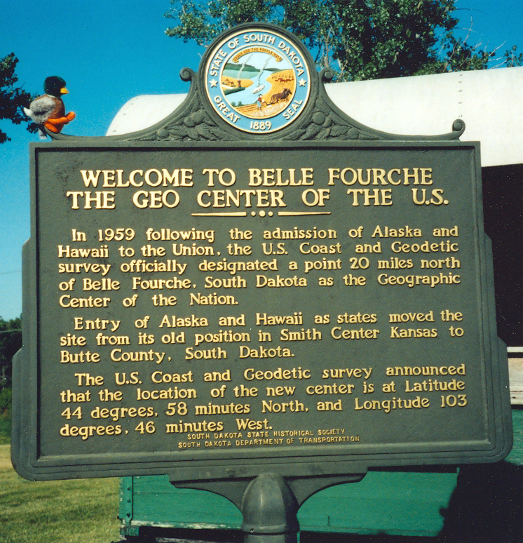 I took this photo on July 12, 1999 at the site marking the (proximity to the) geographic center of the fifty United States